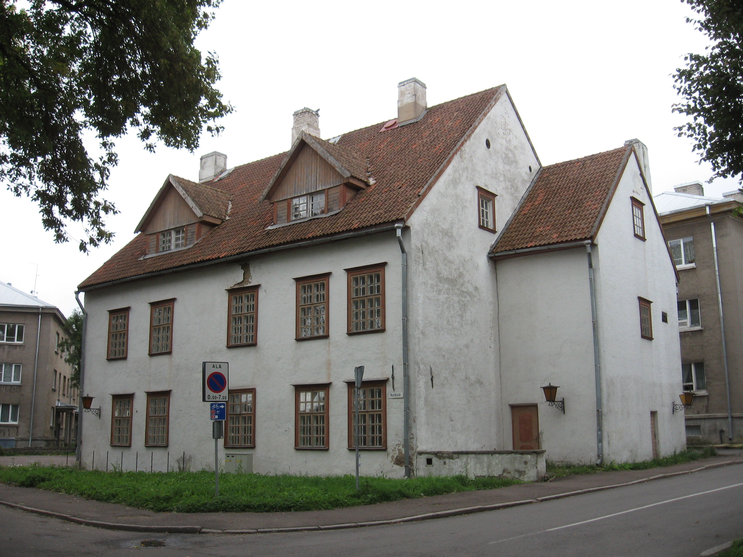 Elamu Narvas Koidula tn 6